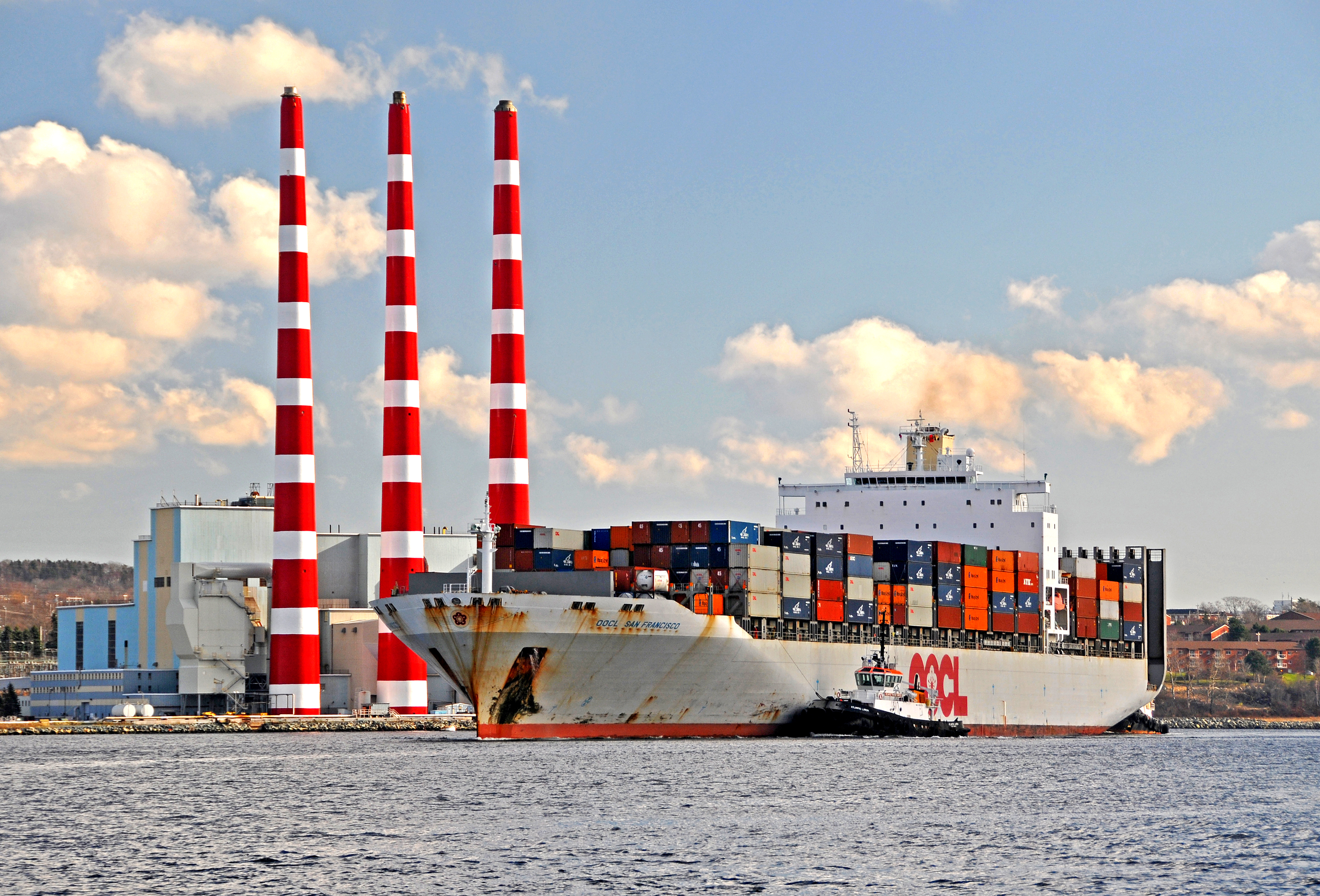 Container ship OOCL San Francisco, Halifax Harbour